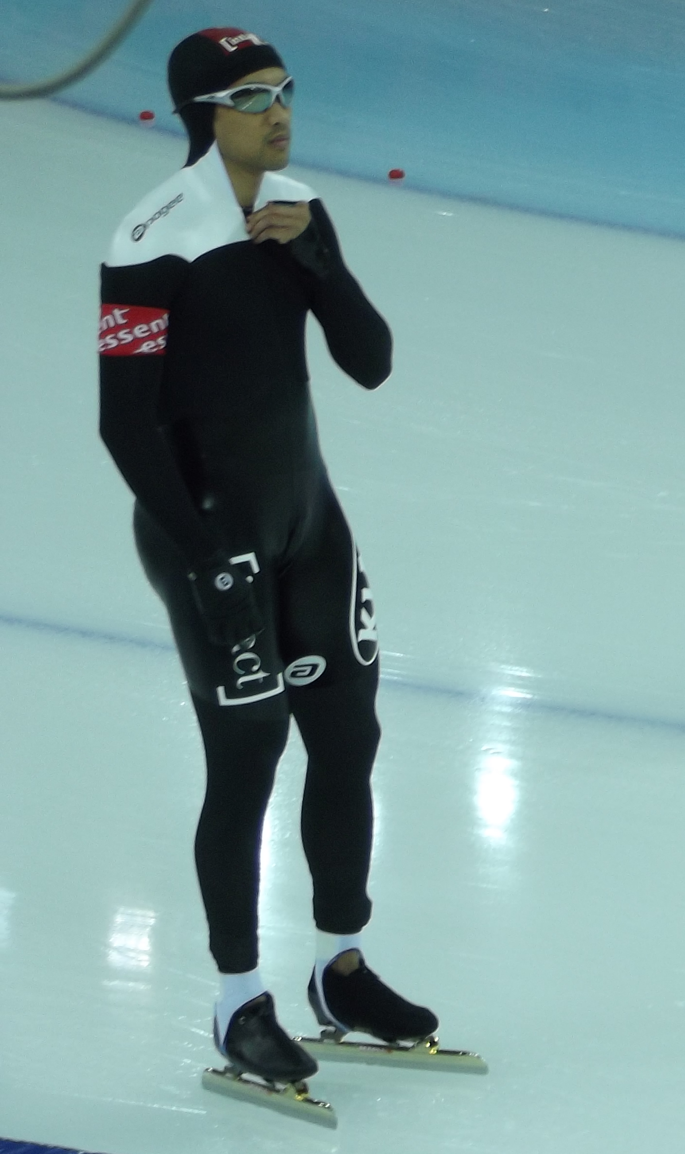 2013 World Single Distance Speed Skating Championships